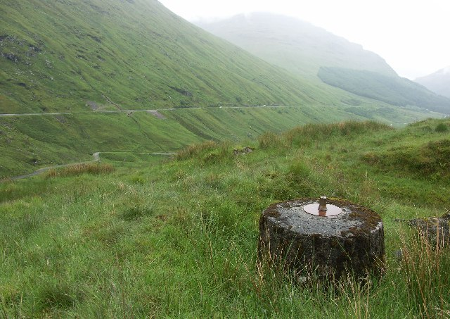 WWII Spigot Mortar base above the Rest And Be Thankful. There are some ruins of buildings in a gulley near this point. These look very like Home Guard buildings and there was probably a checkpoint here during WWII - the original line of the road was on this side of the valley.